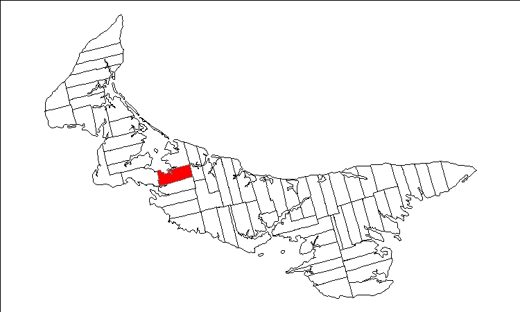 Public domain map of Prince Edward Island created by User:Plasma east with data courtesy of Geogratis, modified to show townships. Released under GFDL (self).